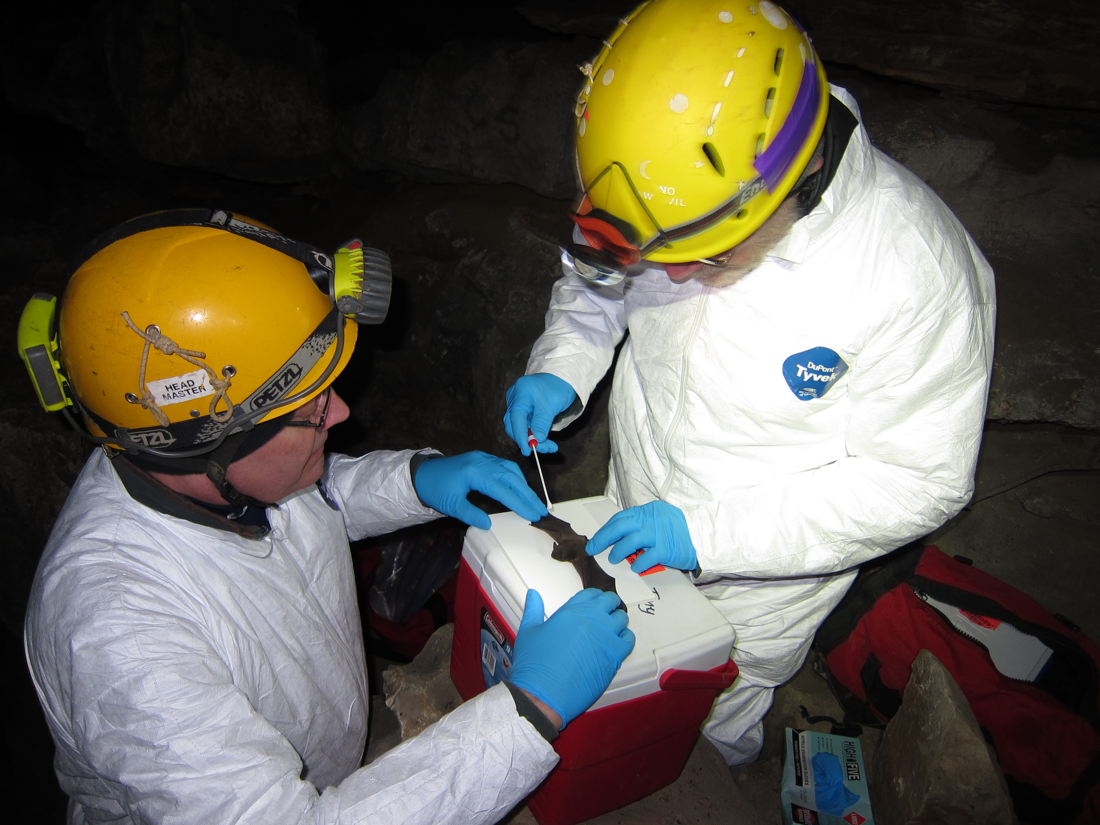 Illinois Natural History Survey (University of Illinois) mammalogists Dr. Ed Heske (left) and Dr. Joe Merritt (right) collect a swab sample from a bat in a Hardin County, Illinois hibernaculum. 20 February 2013. Photo credit: University of Illinois/Steve Taylor